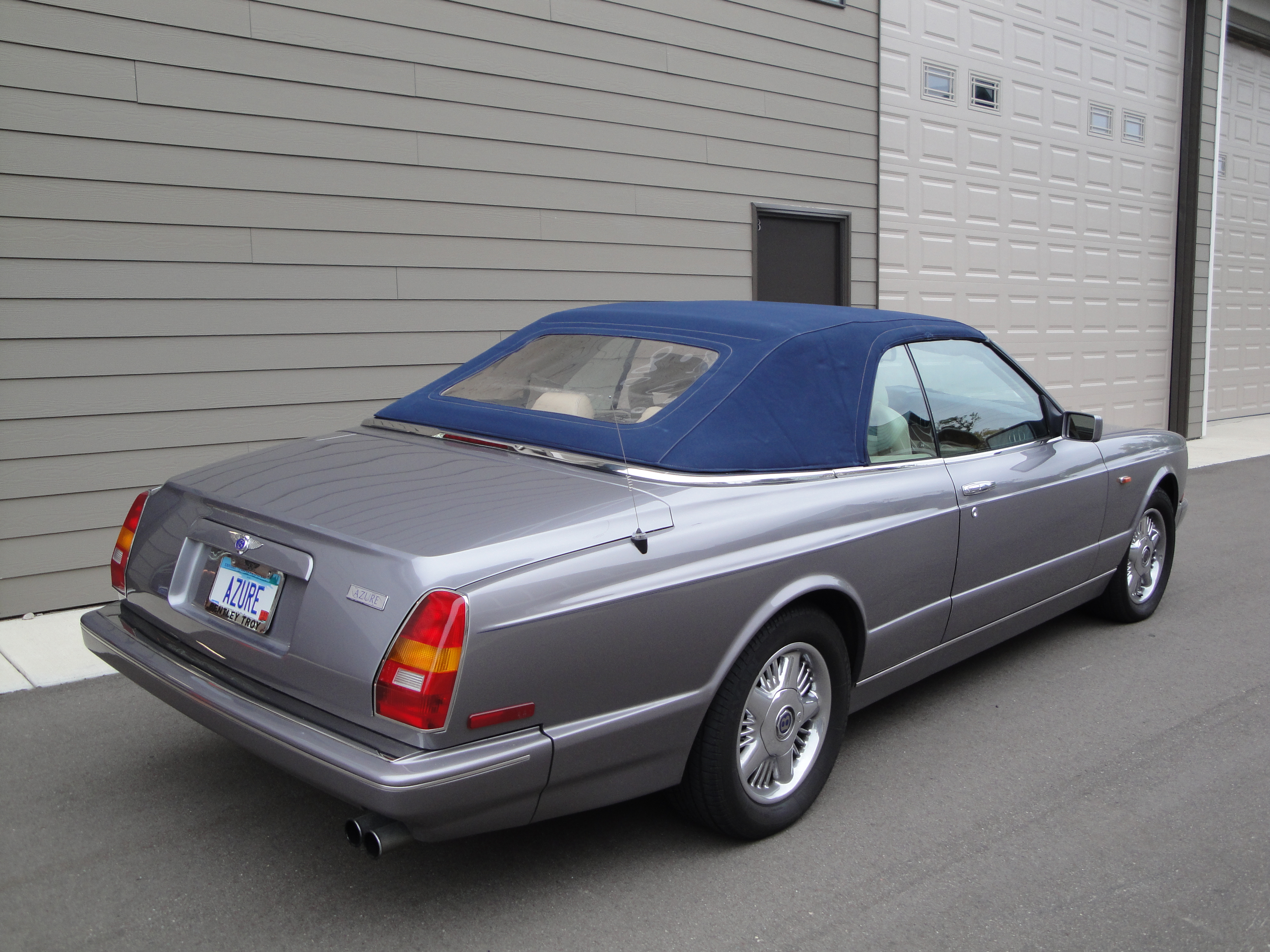 AutoMotorPlex Top 21 All Mopars Car Show hosted by MnChallengers.